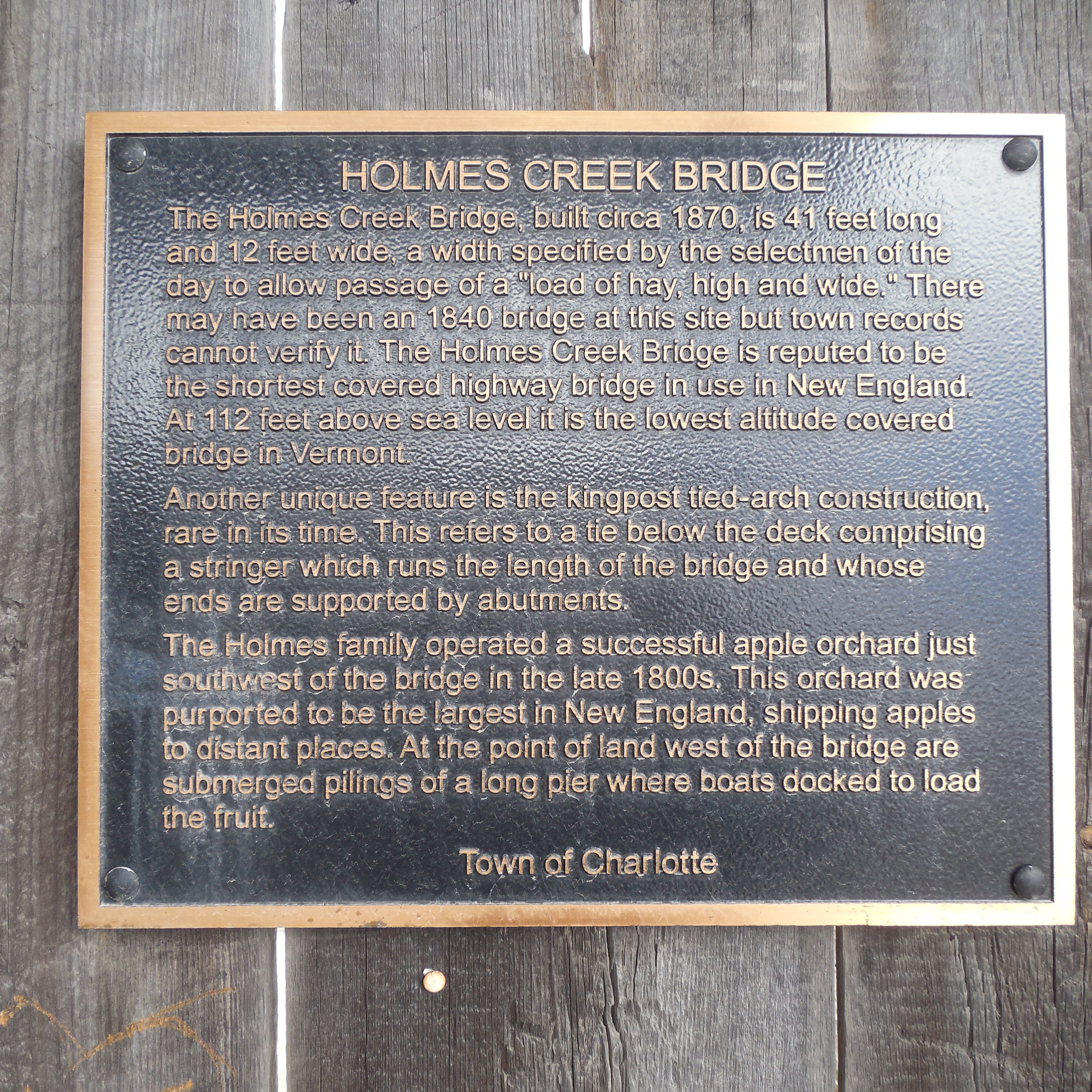 Holmes Creek Bridge (on Lake Rd., Charlotte, VT) plaque: Apr 2015